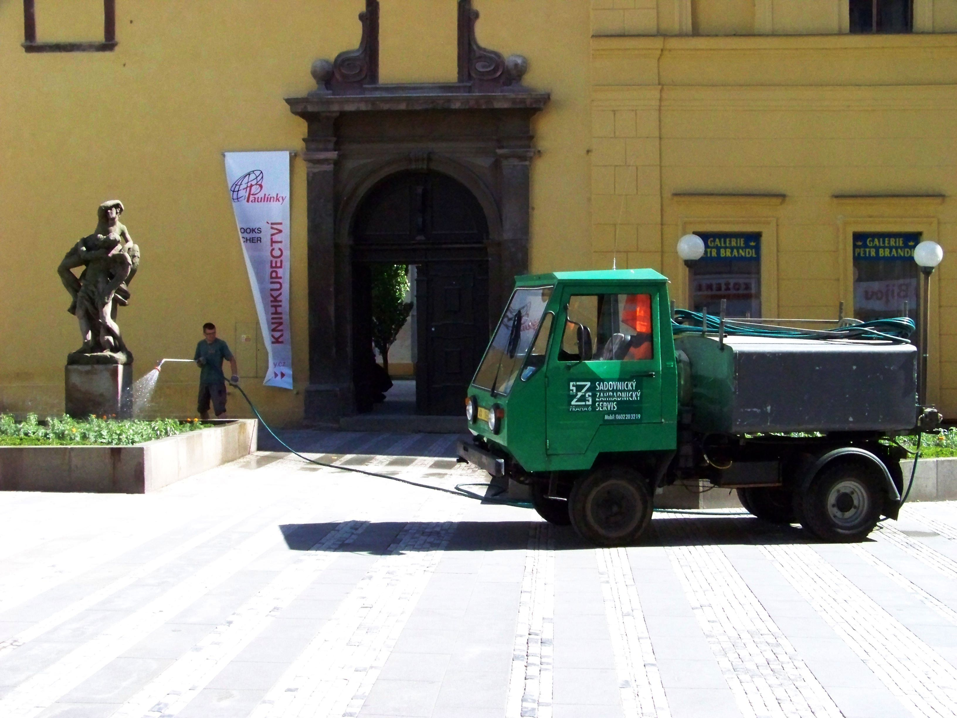 Prague-New Town, the Czech Republic. Jungmann Square, flower beds sprinkling.